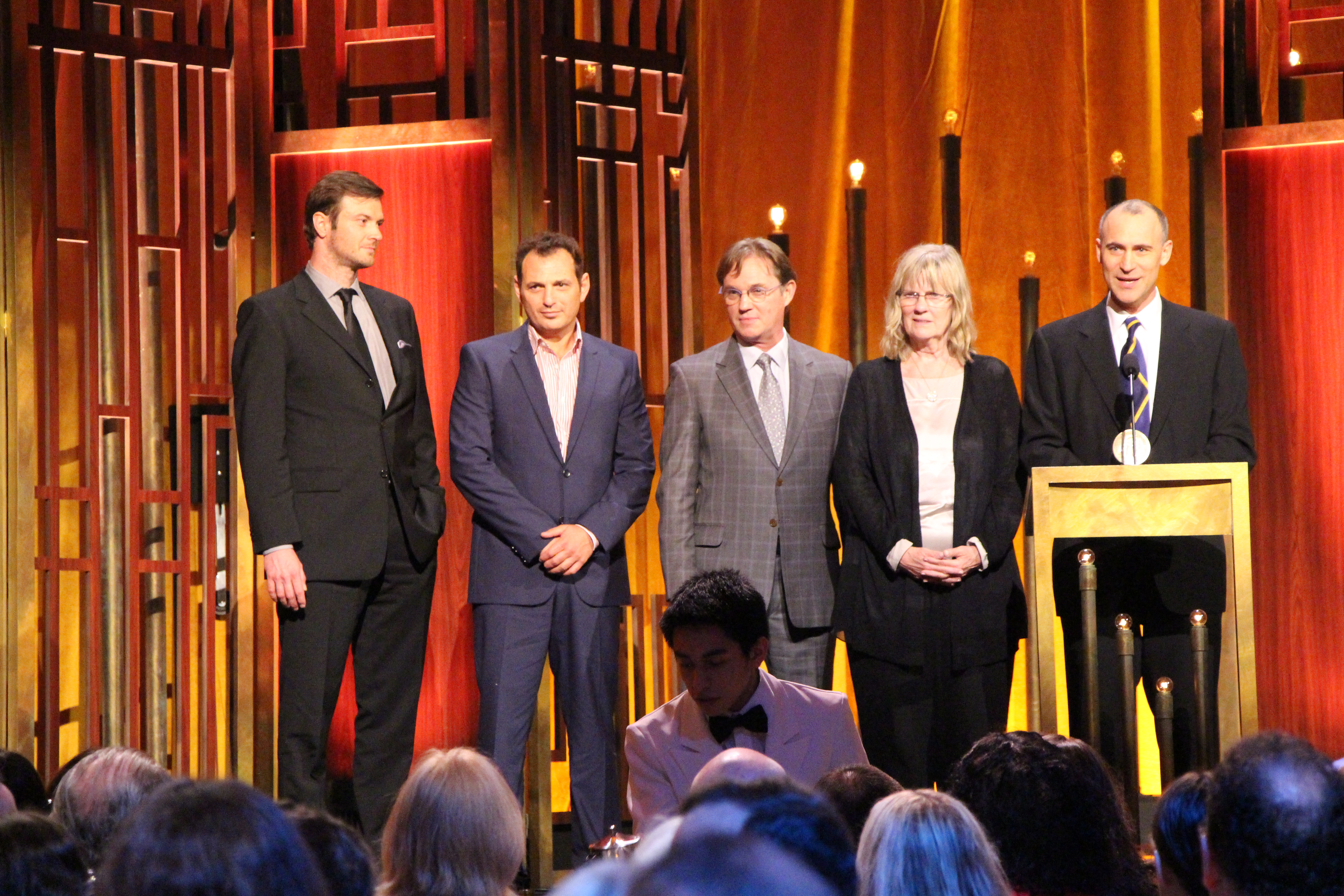 Writer Joel Fields accepts The Americans' Peabody with Costa Ronin, Lev Gorn, Richard Thomas and Mary Ray Thewlis. Cipriani Wall Street